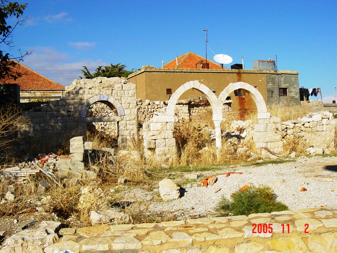 Bireh town, Bireh